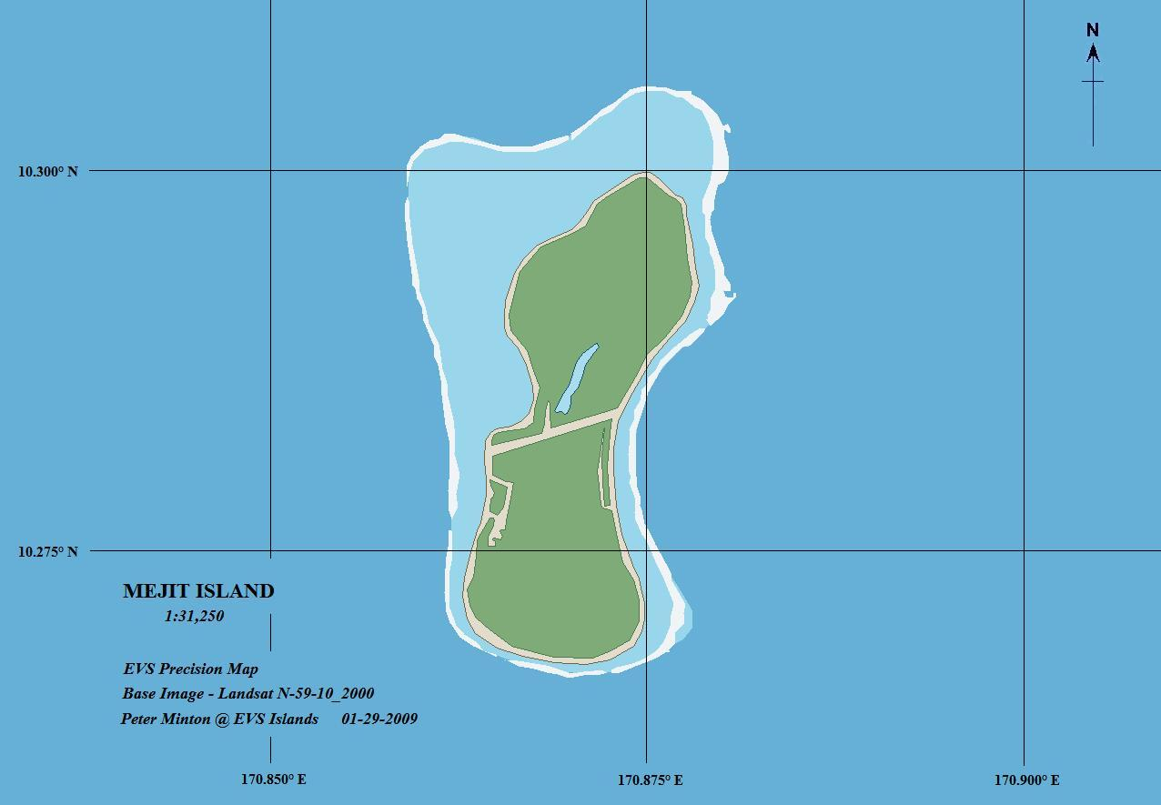 map of Mejit Island, Ratak Chain, Marshall Islands, Micronesia, Pacific Ocean